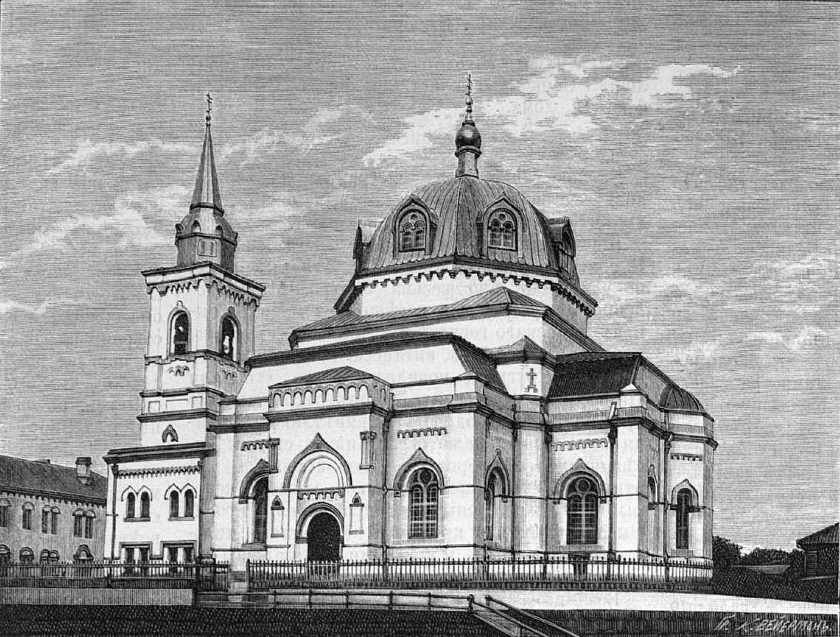 Holy Resurrection Cathedral in Tokyo, 1891